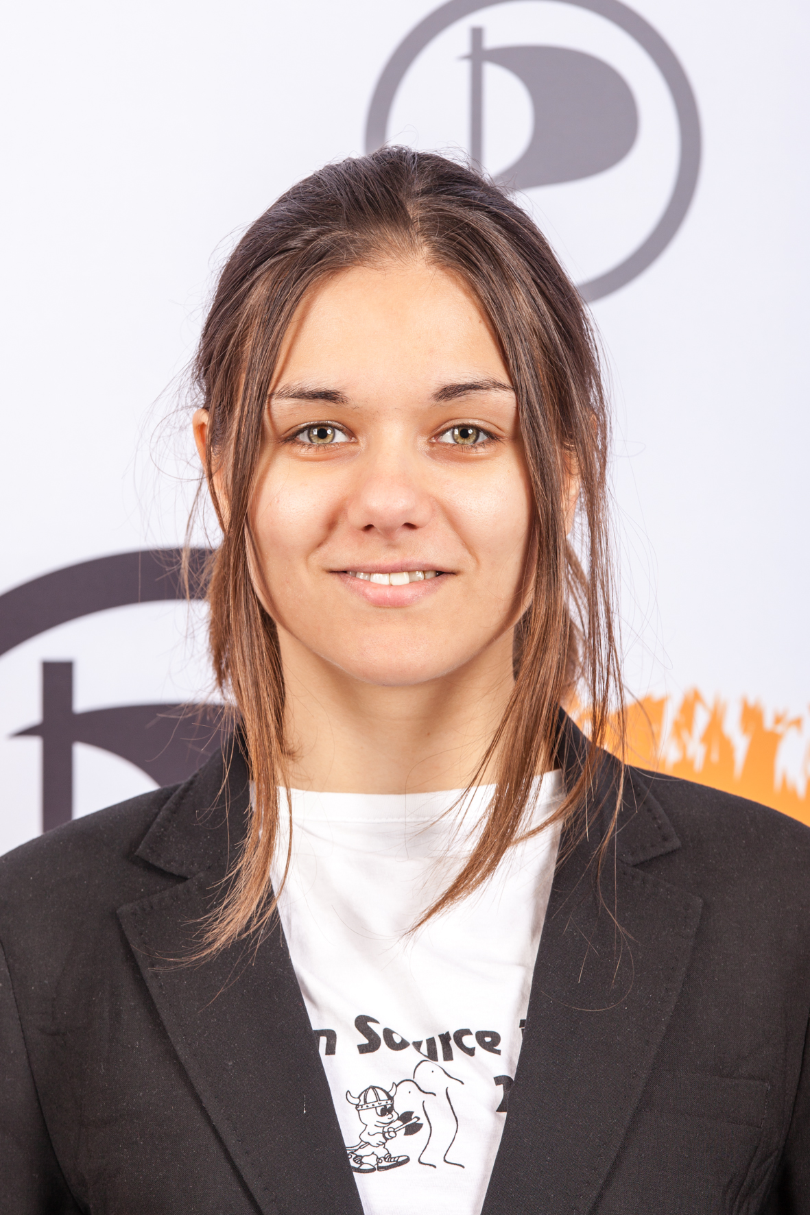 Amelia Andersdotter, Member of the European Parliament